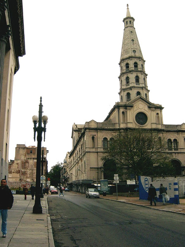 Neigborhood of Ciudad Vieja with the church of San Francisco de Asís in the background, Montevideo.